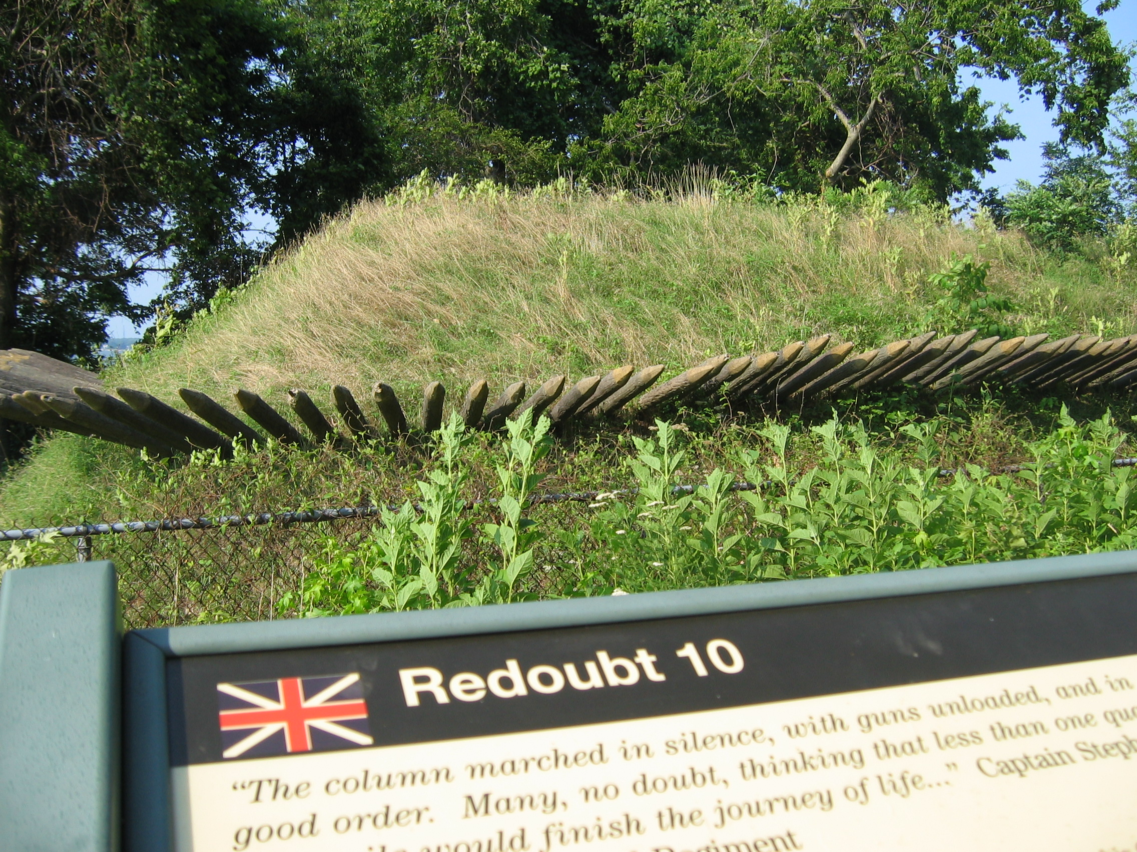 Yorktown Redoubt No. 10